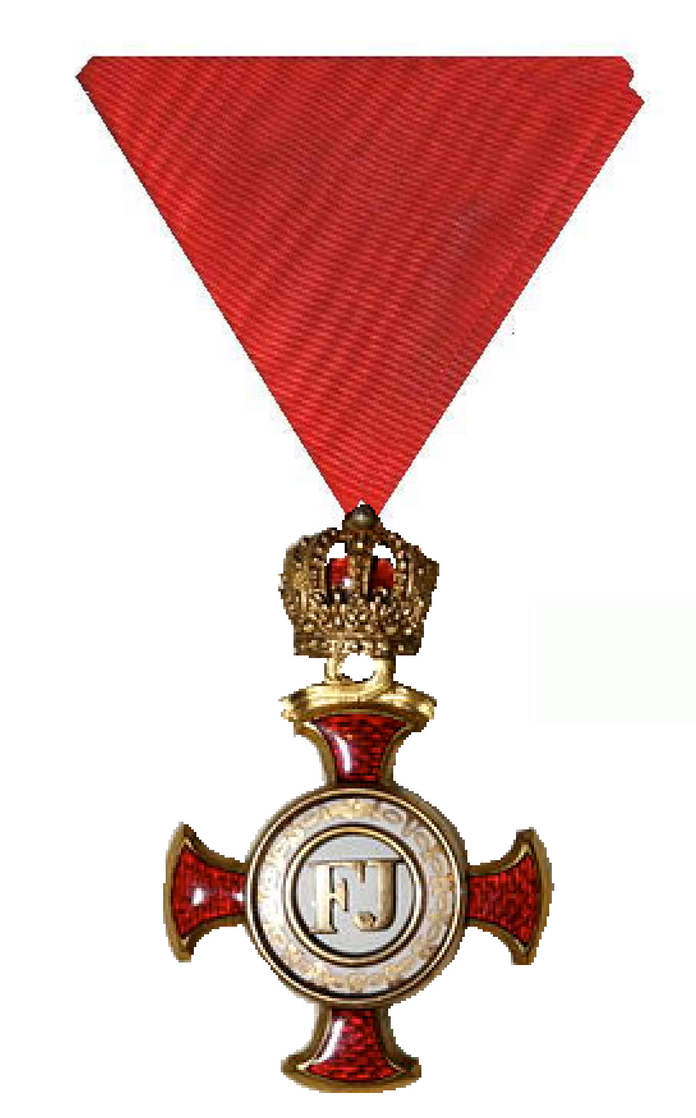 Frans Joseph-Kreuz met Krone in Gold Francis Joseph Cross